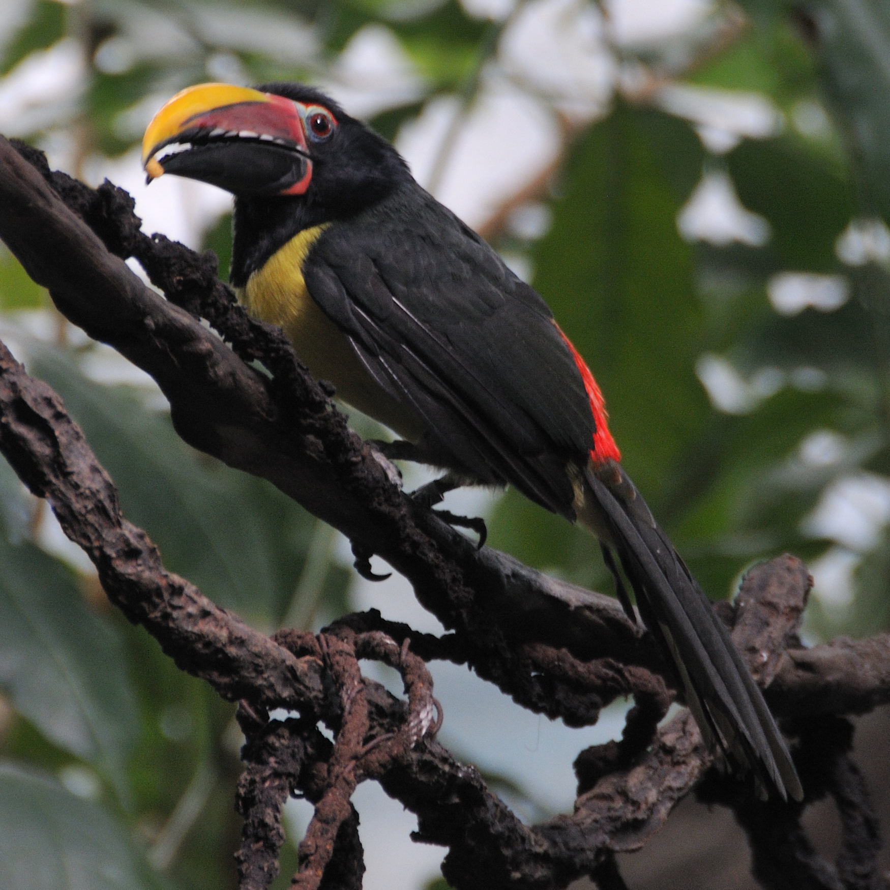 Green Aracari, (Pteroglossus viridis). A male at Bronx Zoo, USA.